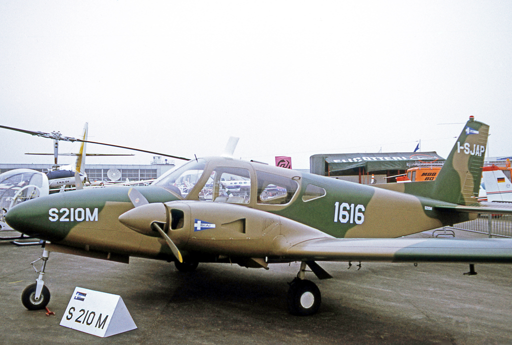 SIAI-Marchetti S.210 prototyoe I-SJAP No. 001 exhibited at the 1971 Paris Air Show